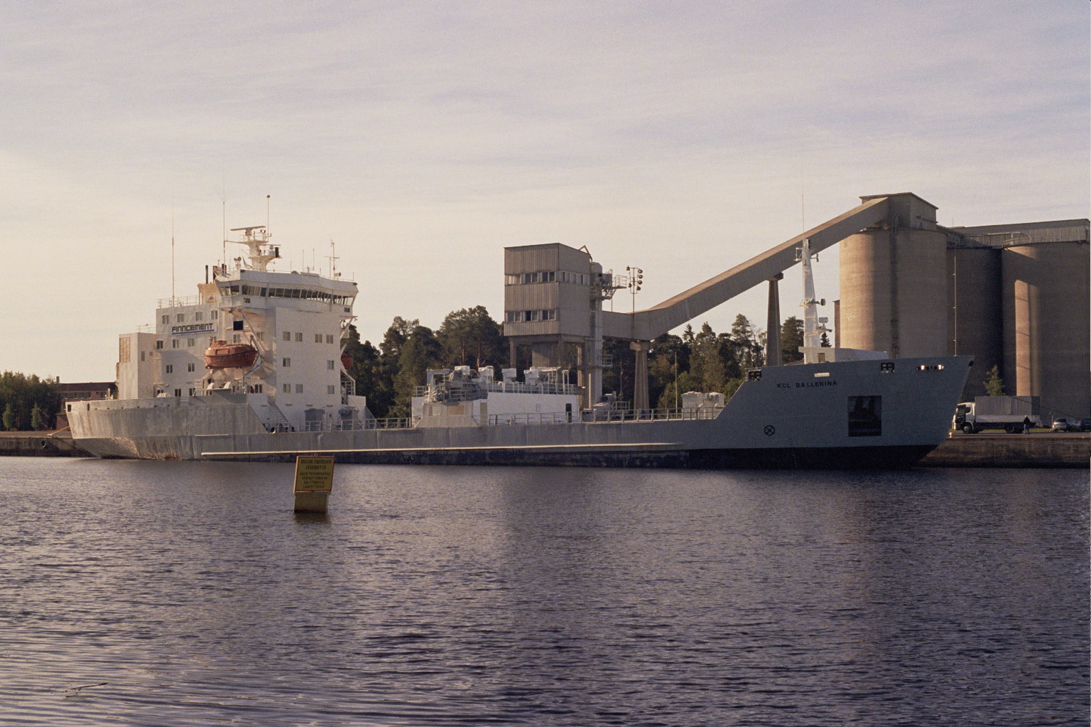 Finnish cement carrier M/S KCL Ballerina in the harbour of Toppila in Oulu, Finland. Her home port is in Mariehamn. IMO Number: 8208464 MMSI Number: 230107000 Callsign: OIQS Length: 96 m Beam: 16 m